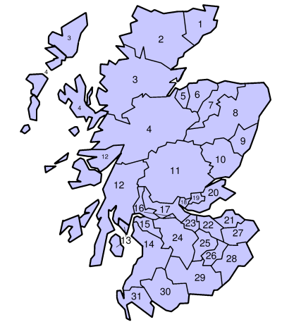 Counties of Scotland 1890-1975